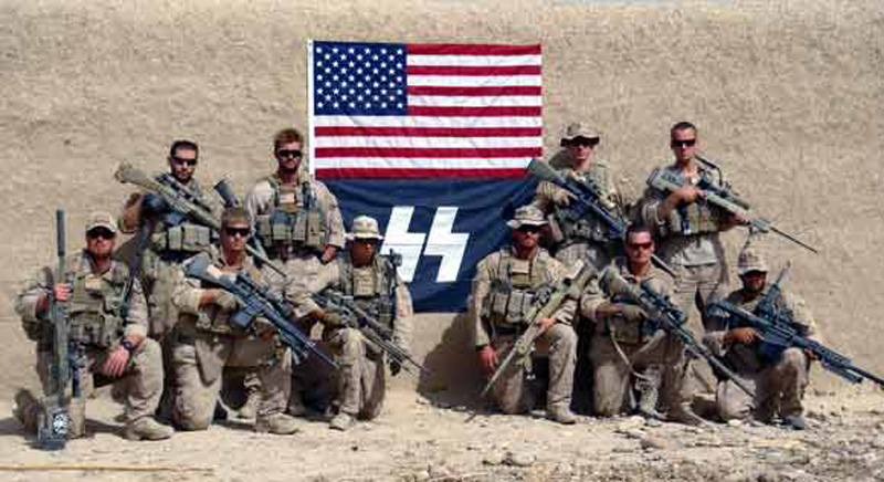 Marine scout snipers with Charlie Company, 1st Reconnaissance Battalion, displaying the US flag and a flag with the blue double Sig rune symbol. Taken in September 2010 in Sangin district, Helmand Province, Afghanistan.